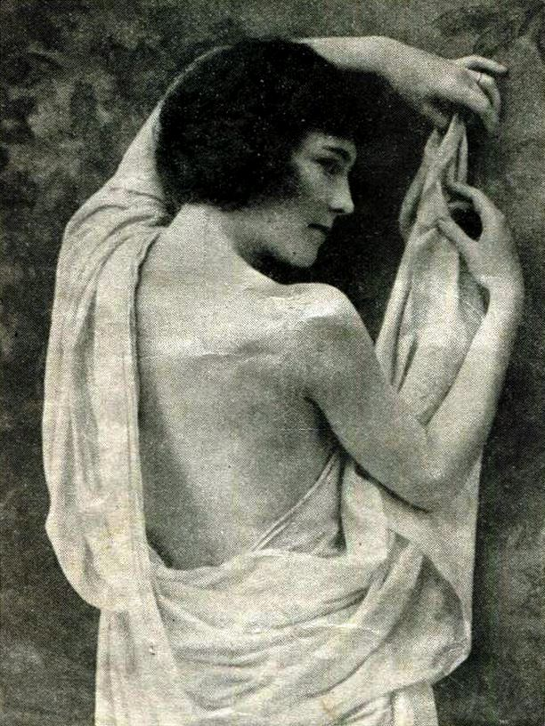 Still of actress Cleo Mayfield for the 1922 musical comedy play The Blushing Bride at the Astor Theatre, New York City, on page 16 of the May 1922 Hot Dog.